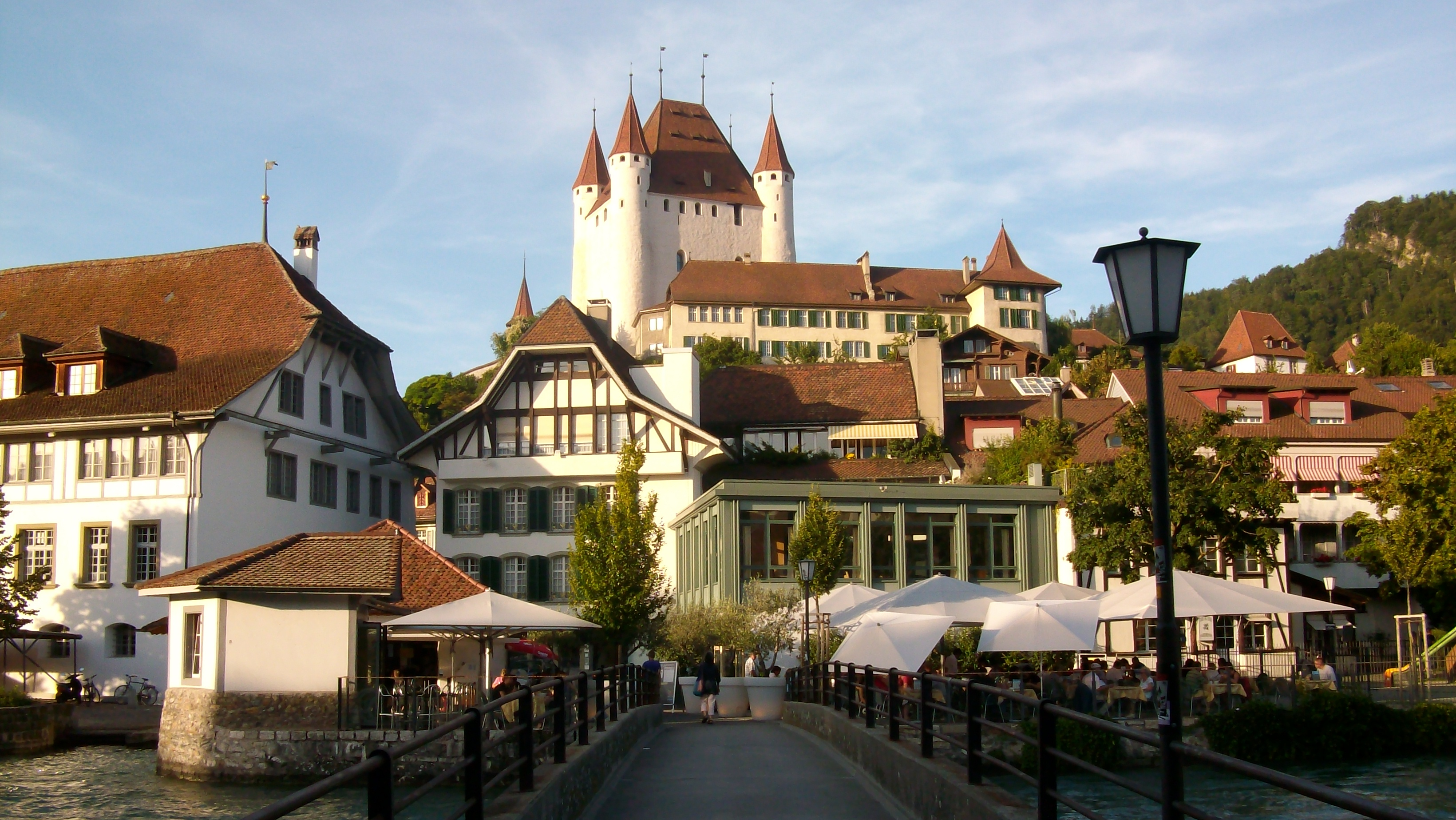 Thun, Switzerland